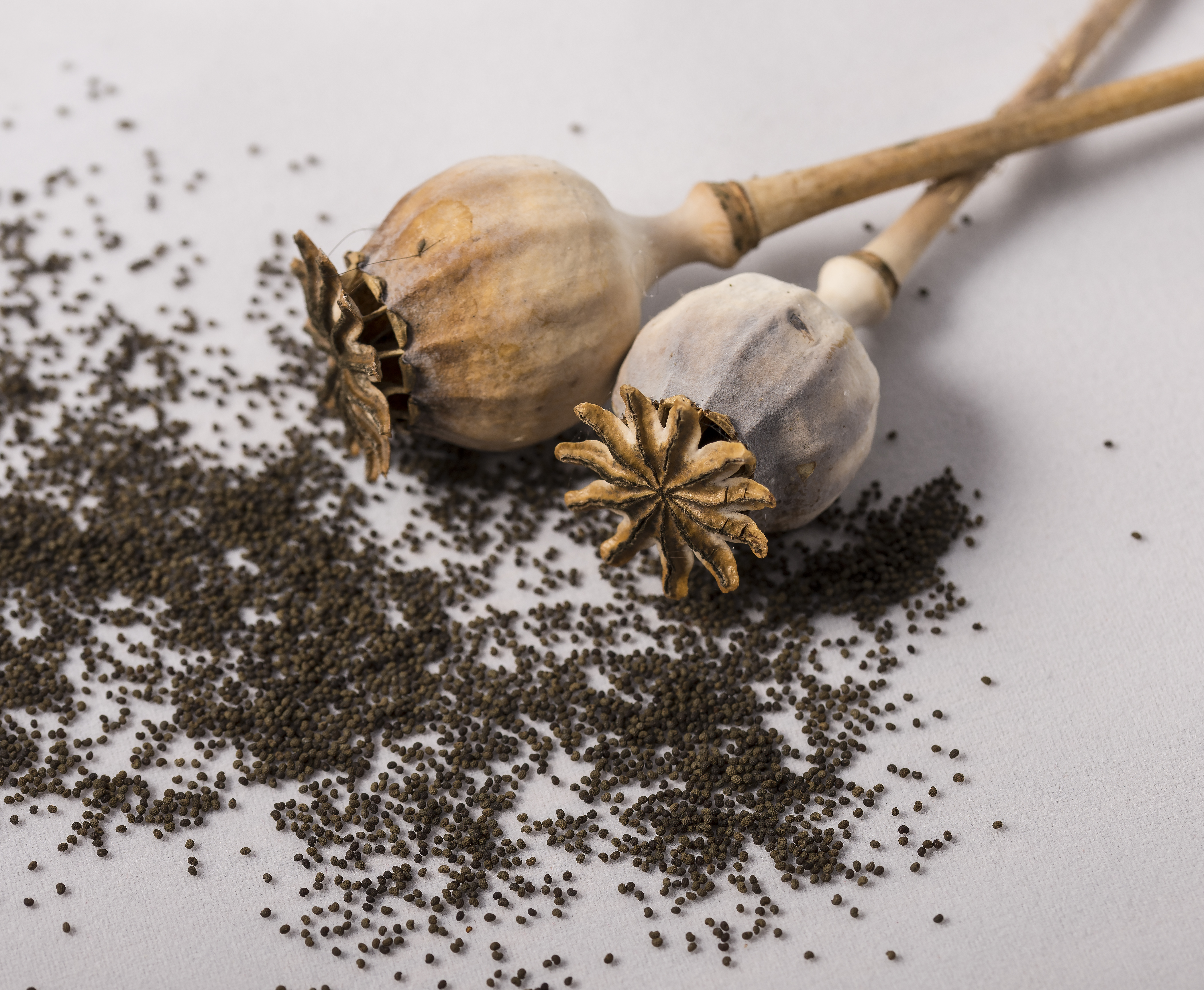 2 poppies seeds (Papaver somniferum)